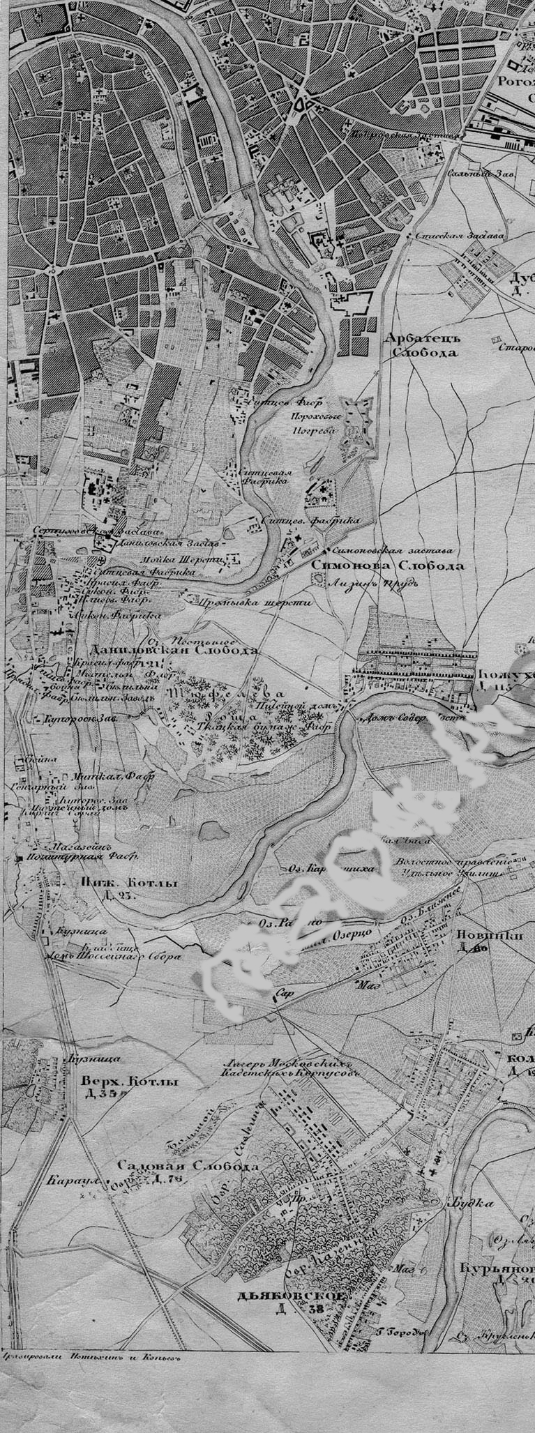 Pre-revolutionary map Printers and Nagorno areas of the city of Moscow.